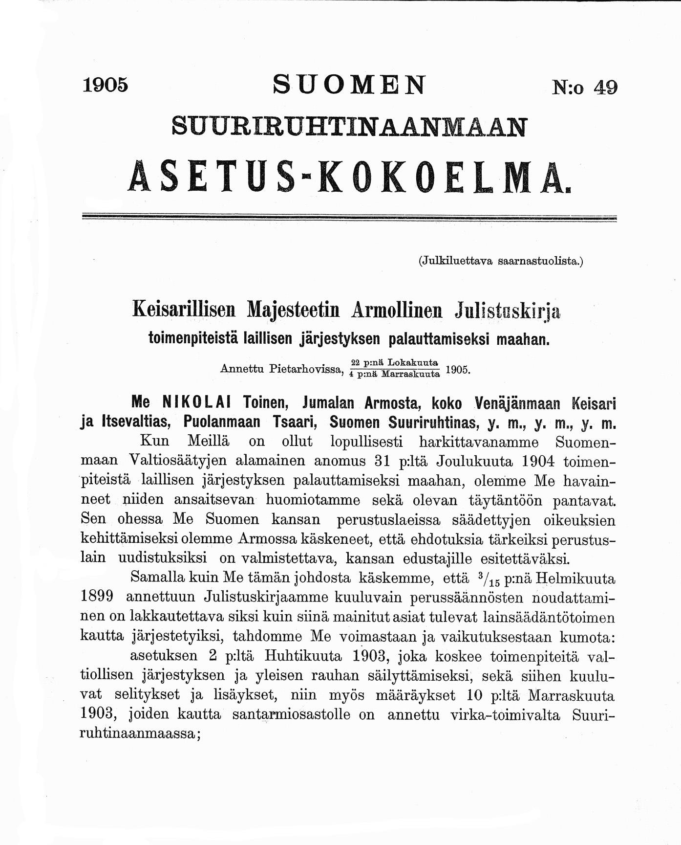 The so-called November Manifesto of 1905 (in Finnish language) from the Russian Emperor concerning legislation in Finland.